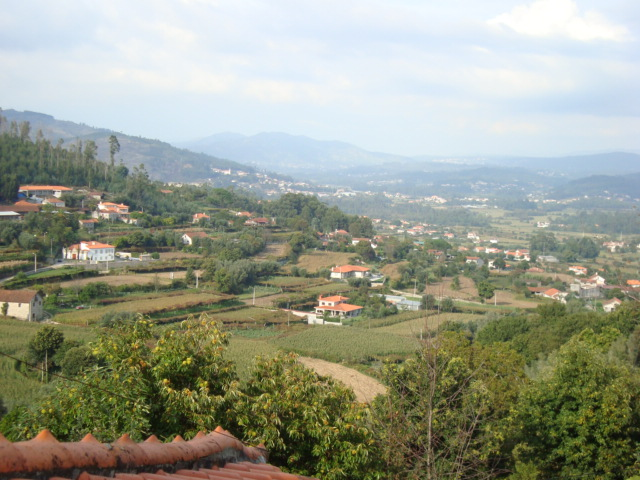 Landscape of Quintiães, Barcelos, Portugal.